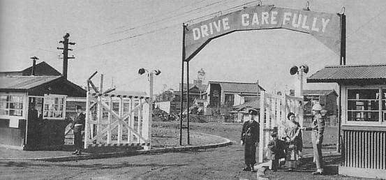 Gate of Sugamo Prison